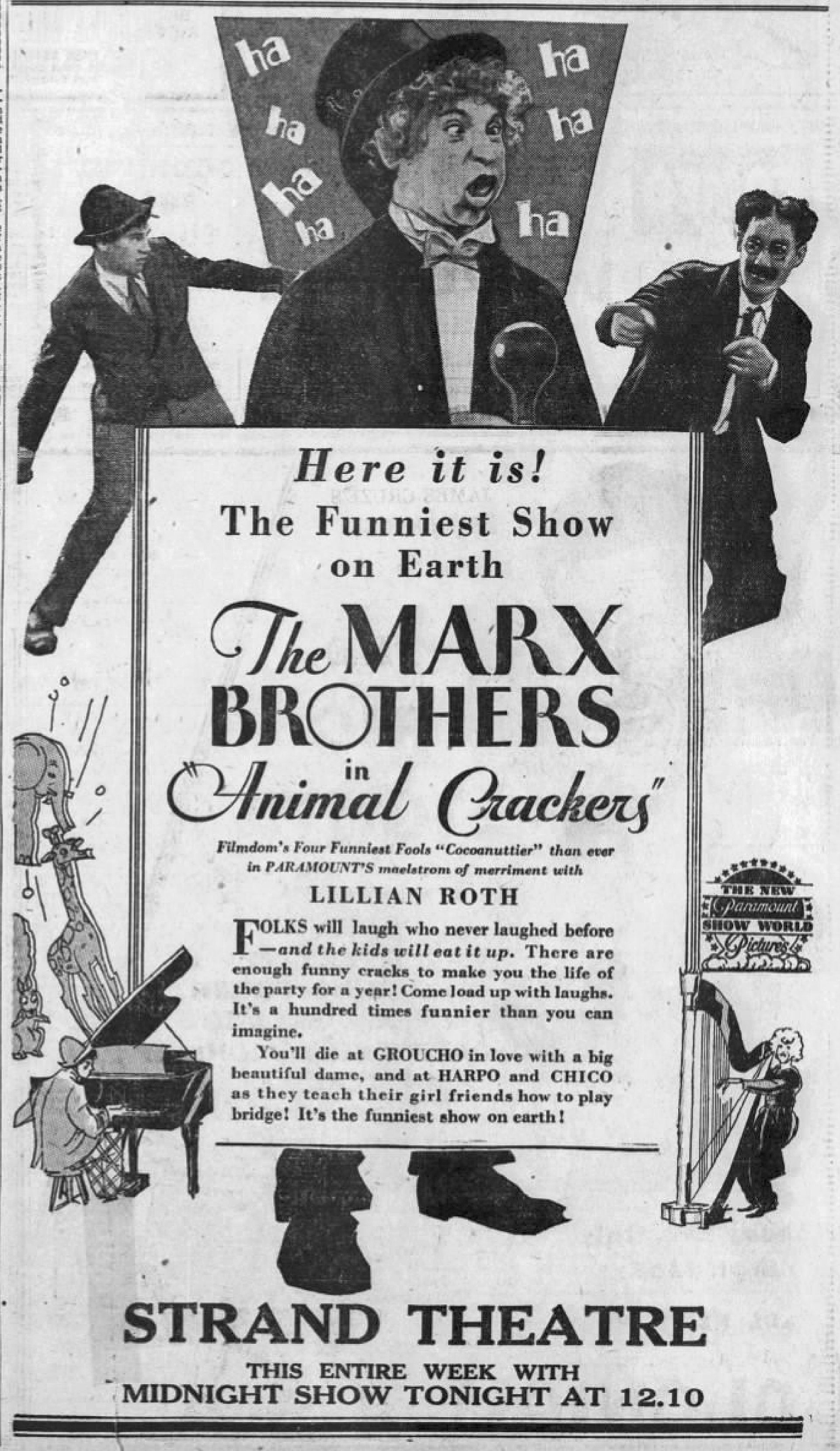 Strand Theater advertisement for the American comedy film Animal Crackers (1930) - 21 Sep. 1930 Morning Call, Allentown PA